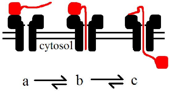 Table with functions of the domains for each anthrax toxin protein.